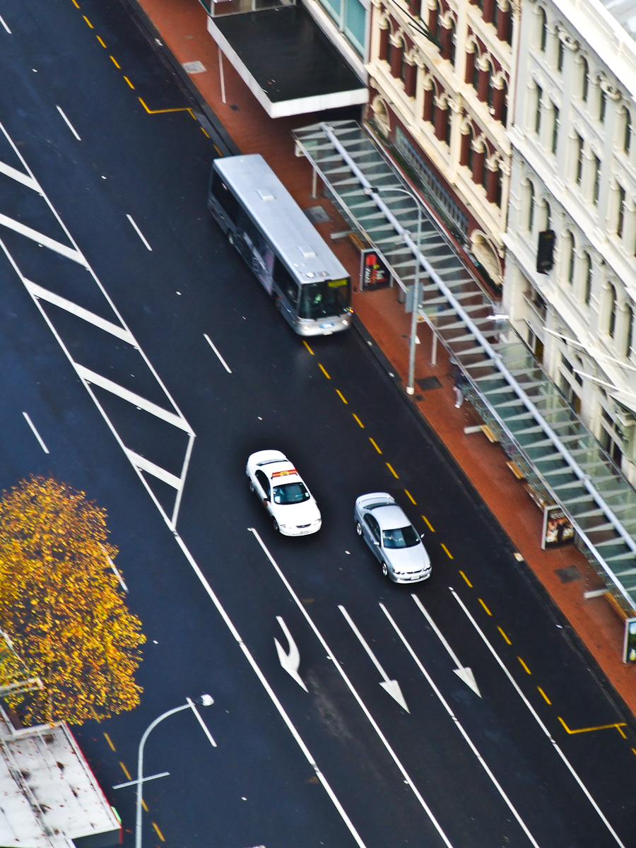 The streets and buildings of the Auckland CBD